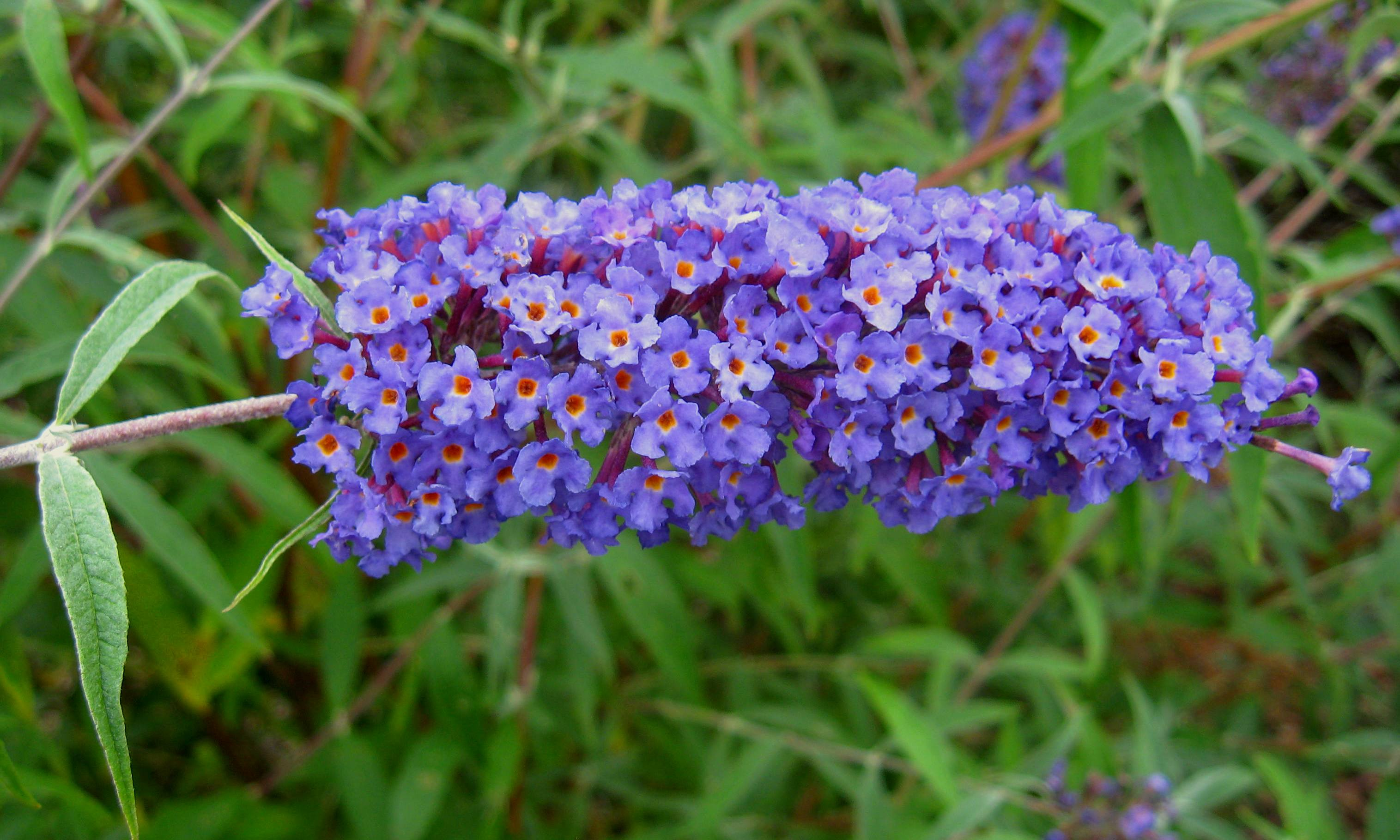 Photo taken at Longstock Park, UK, August 2012.